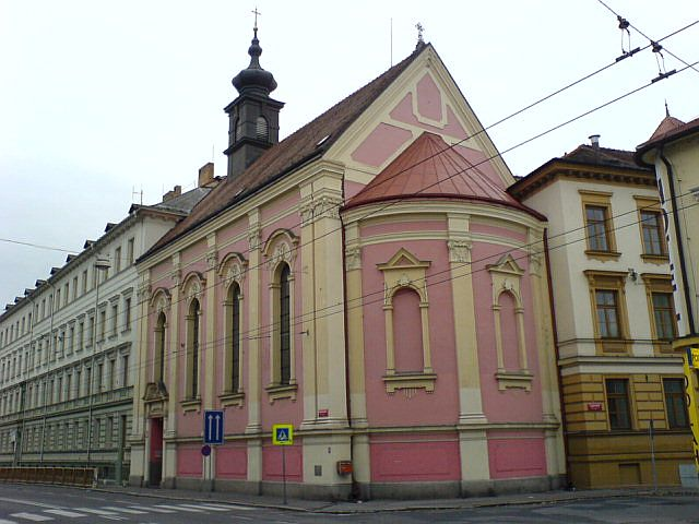 Author: Wikipedista:Karel Hudera Source: Transfer from cs. wikipedia cs: Kostel Božského srdce Páně (České Budějovice)